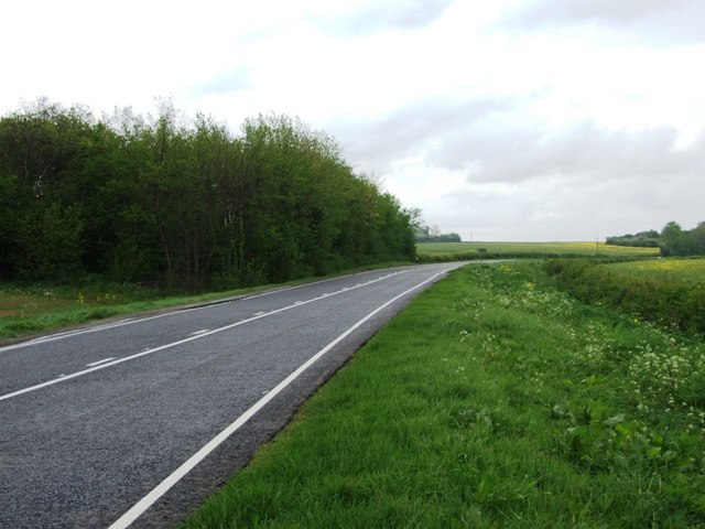 Sainfoin Holt Small area of mixed woodland along the north side of the A52, The road climbs to the Northeast after a junction with the lane that leads to Haceby.